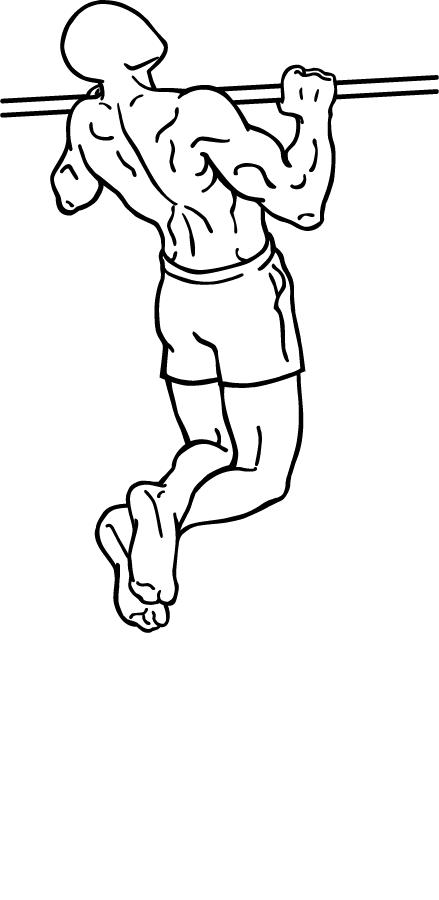 an exercise of upper back